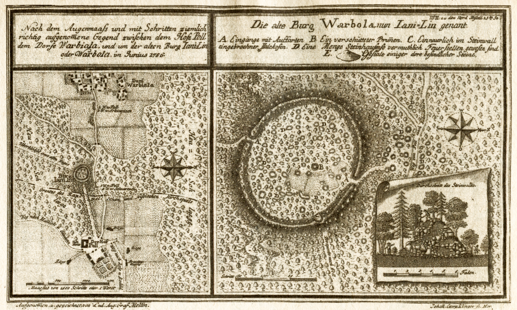 Varbola Stronghold fort plan